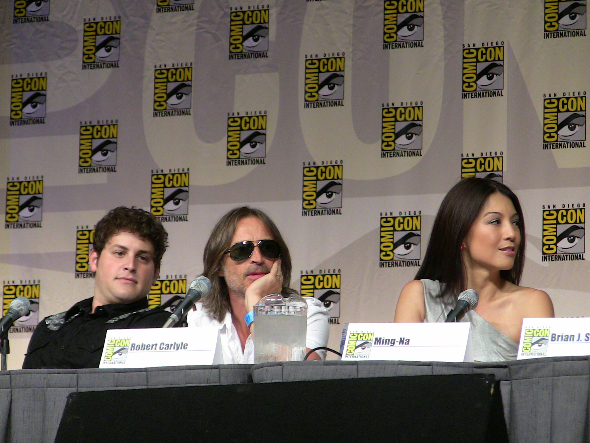 Comic-Con 2009 - Stargate Universe Panel - San Diego, Calif. - July 24, 2009